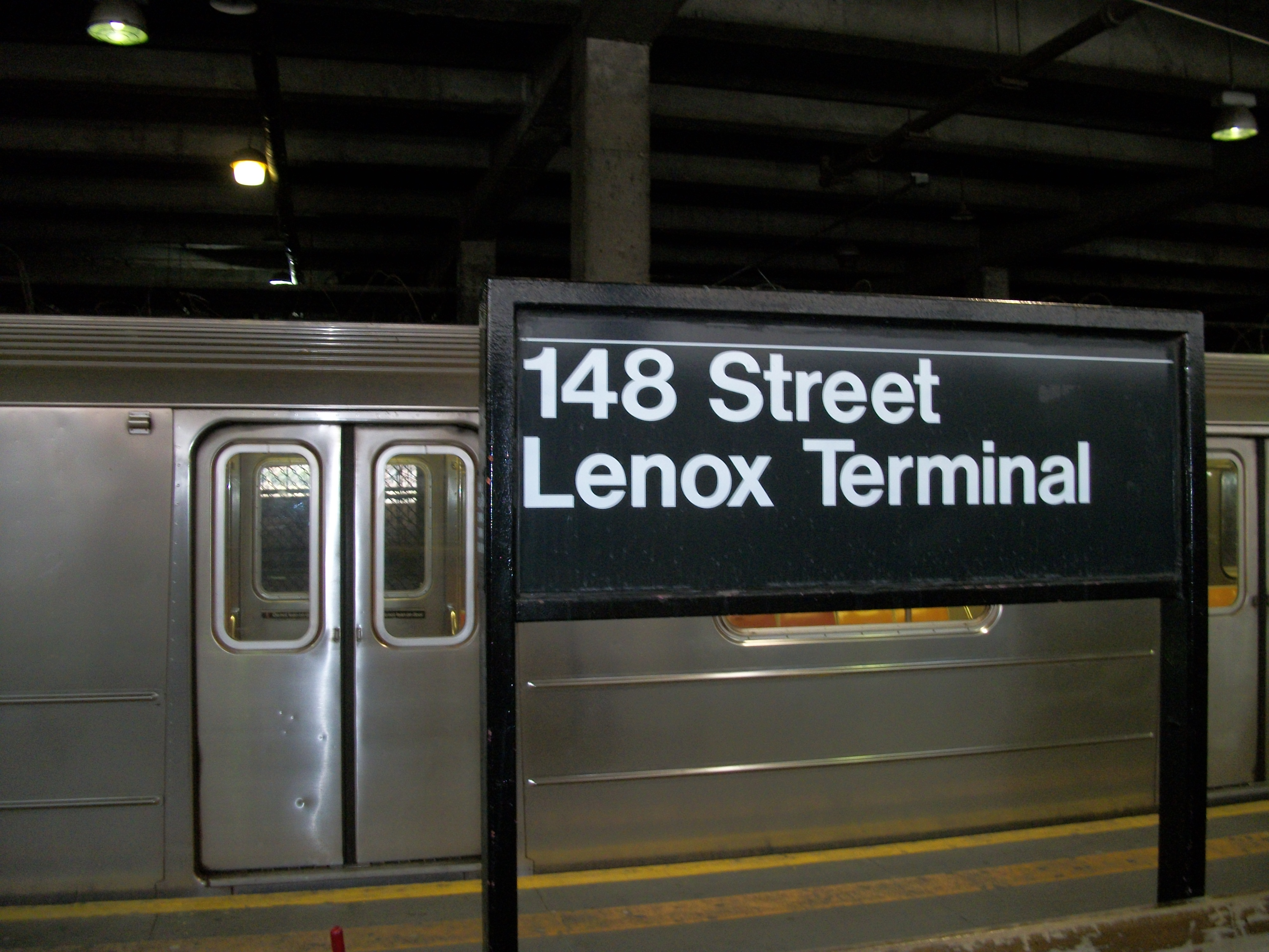 A sign in the middle of one of the platforms of the Harlem - 148th Street (IRT Lenox Avenue Line) mosaics in Harlem, Manhattan, New York. I wanted to get an exterior shot from the street, but it came out blurry, so this will have to do.